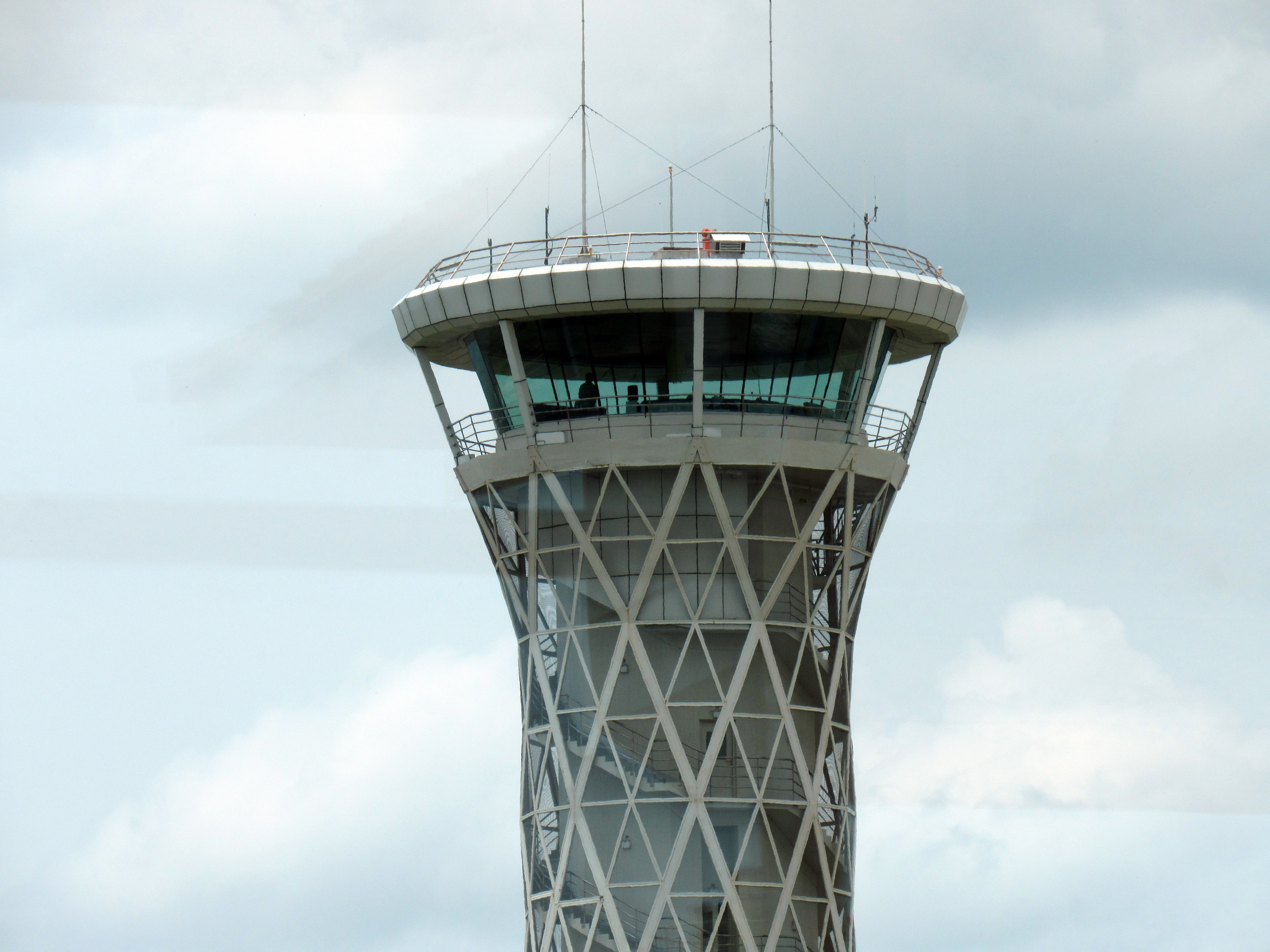 Control tower of the Mattala International Airport, Sri Lanka.